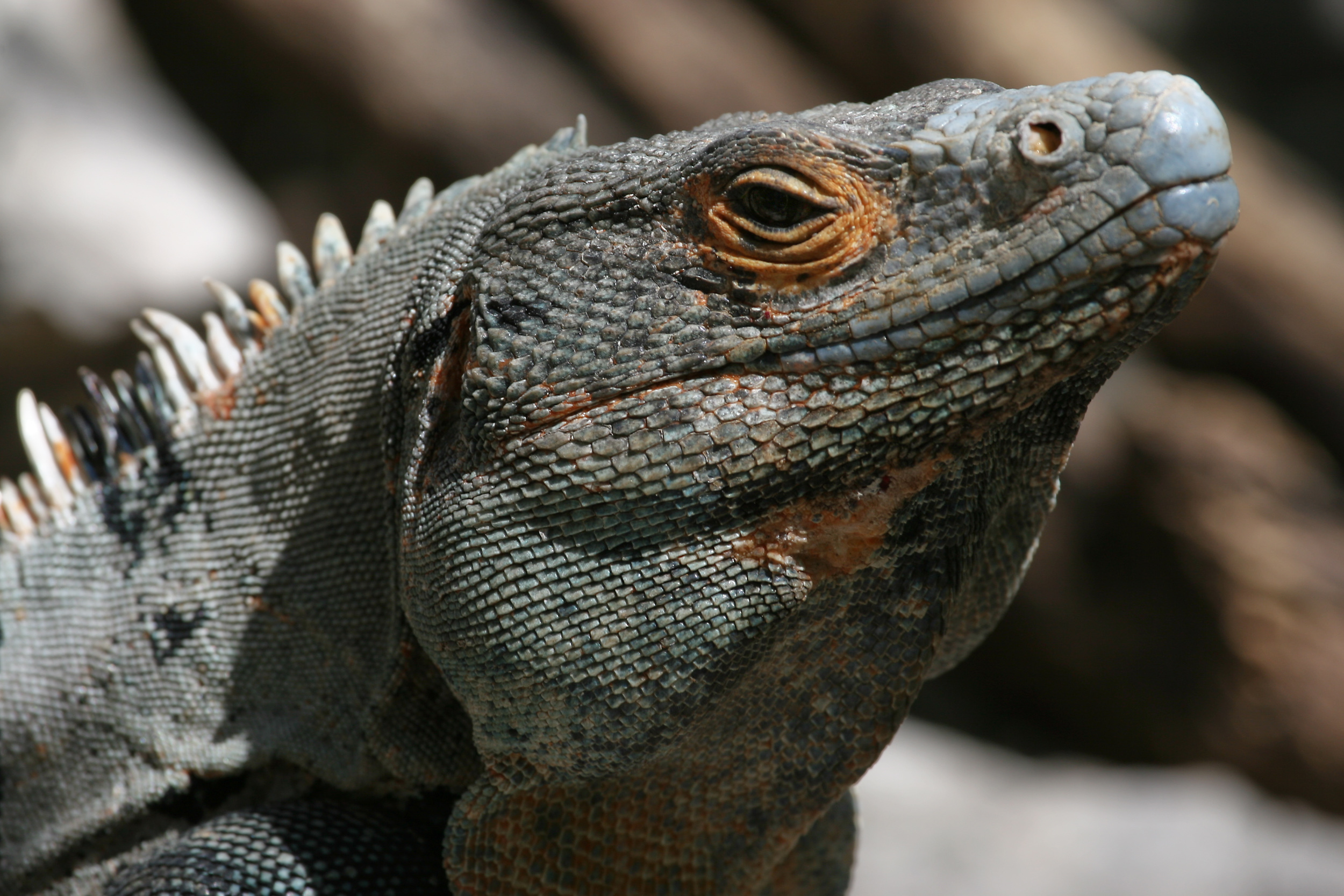 Ctenosaura similis, Black Iguana, male close-up, Barra Honda national park, Costa Rica.